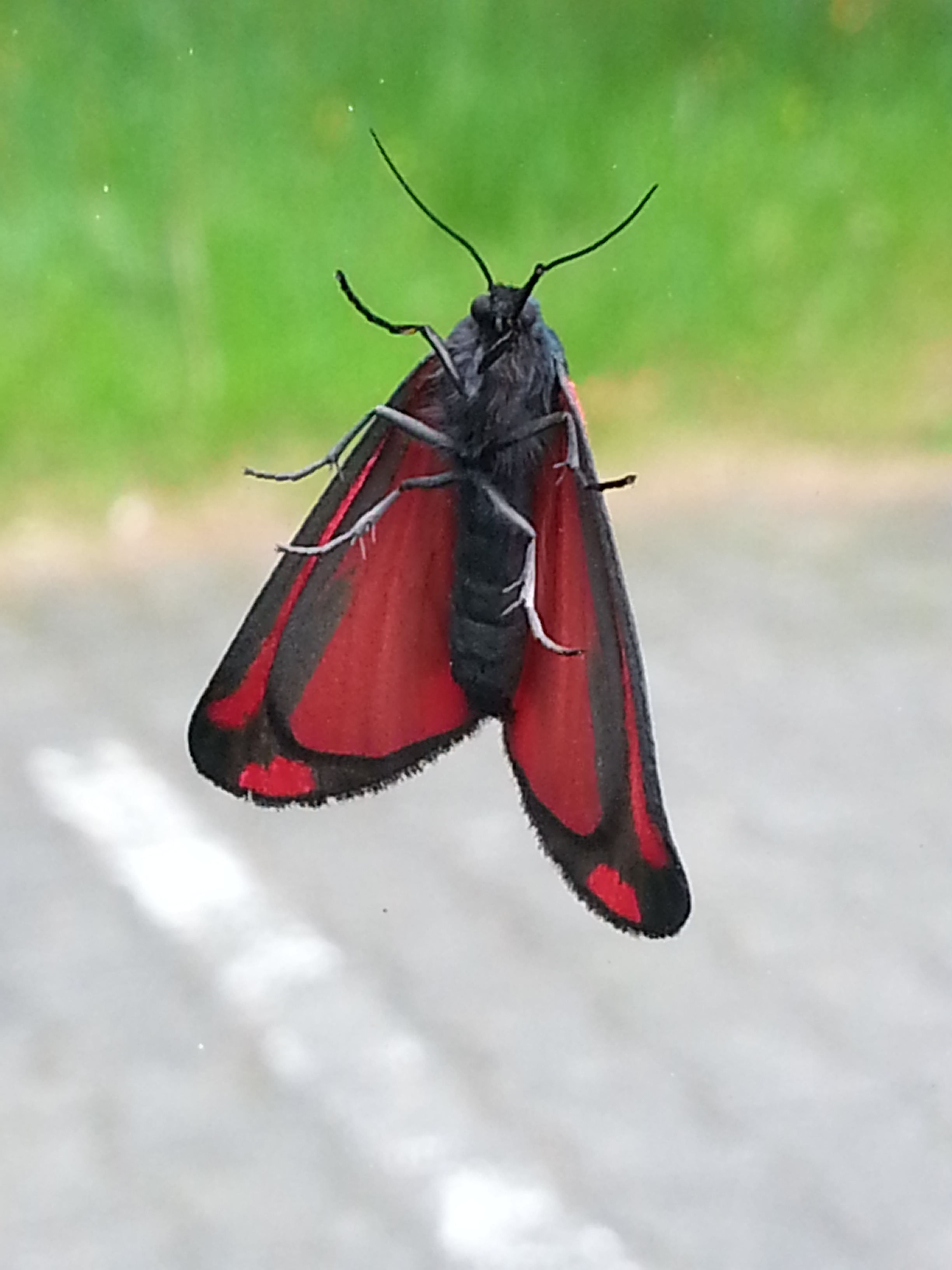 Cinnabar moth (Tyria jacobaeae), underneath (through a window)